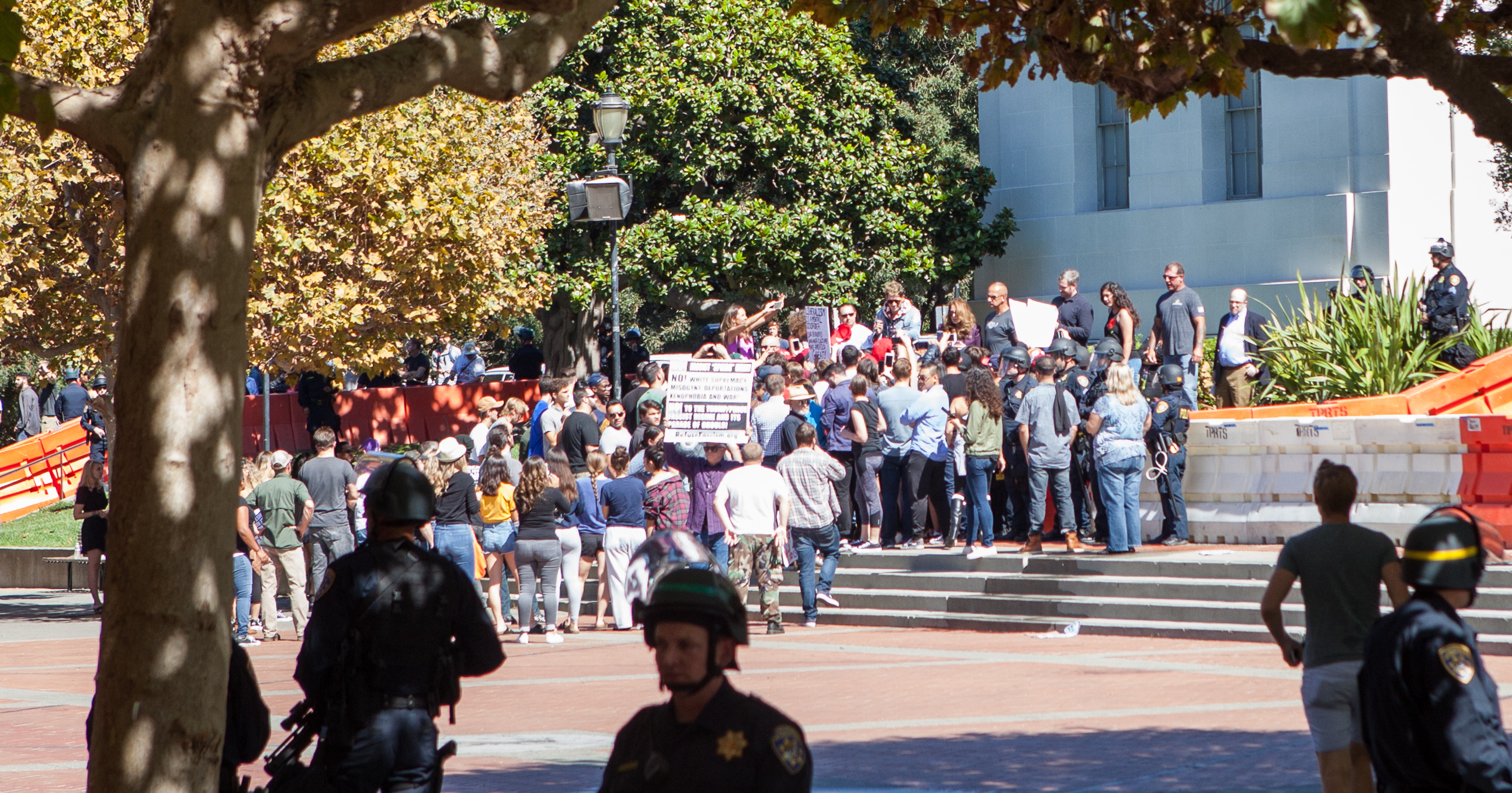 Milo Yiannopoulos (seen from a distance) greets supporters on the steps of Sproul Hall, UC Berkeley.